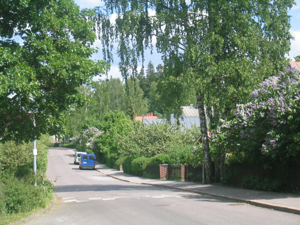 Veräjämäki in Helsinki, Finland